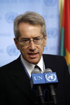 rapponu